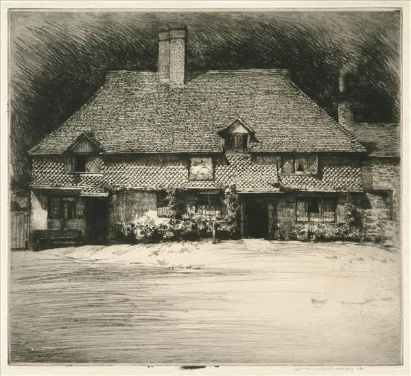 The White Hart, Witley - Etching, signed in pencil lower right 28.5cm x 31.5cm